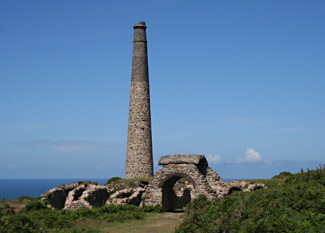 The Arsenic Labyrinth at Botallack Mine Arsenic compounds were an unwanted pollutant in tin ore which ruined the smelting process. The solution was to heat the ore to drive off the arsenic as a vapour. In the early days of mining this badly polluted the surrounding countryside. However arsenic itself proved to be a saleable by-product so the arsenic fumes were sent through a labyrinth of tunnels where it would condense on the tunnel walls. This photo shows part of the arsenic labyrinth at Botallack mine. The maze of tunnels has partially collapsed. Half way through the labyrinth, the tunnel passes over the top of an arch to cross one of the entrances to the mine. At the end of the labyrinth the remaining fumes passed up the tall chimney shown in the photograph.